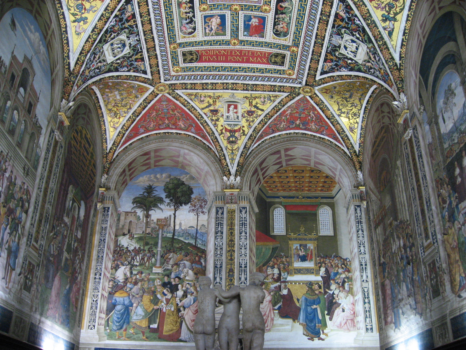 Piccolomini Library in Siena Cathedral